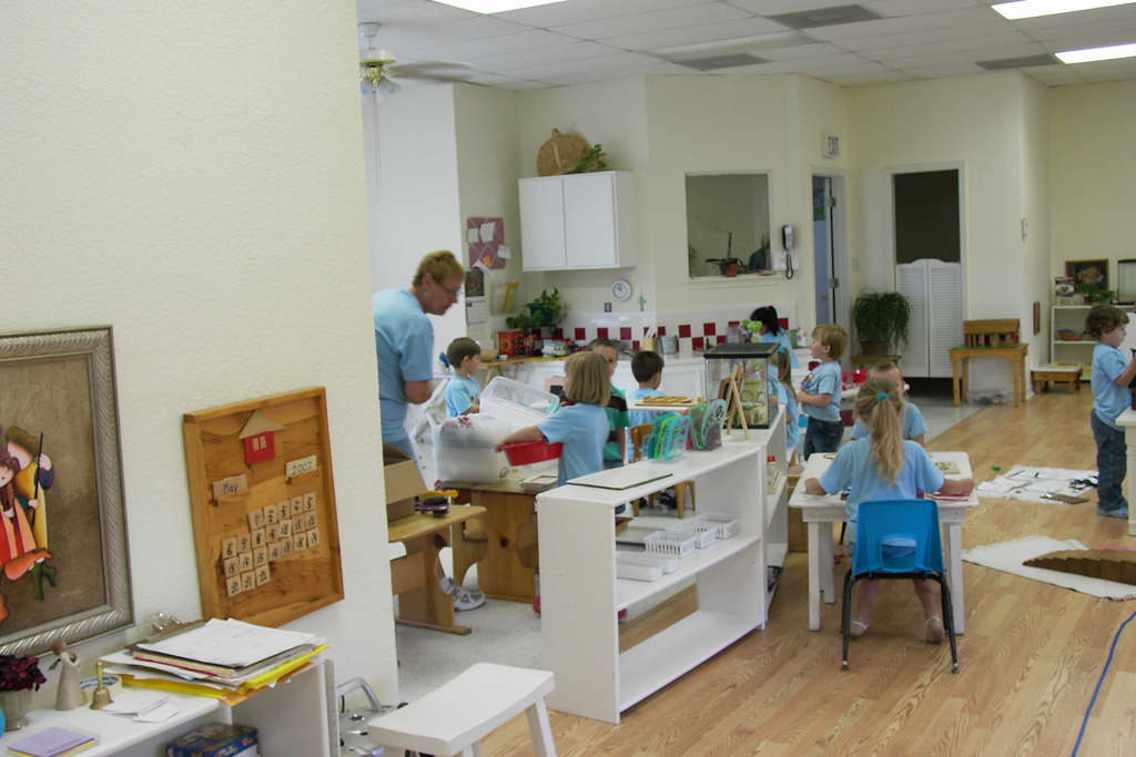 Montessori classroom modern dayEmily talks to a teacher